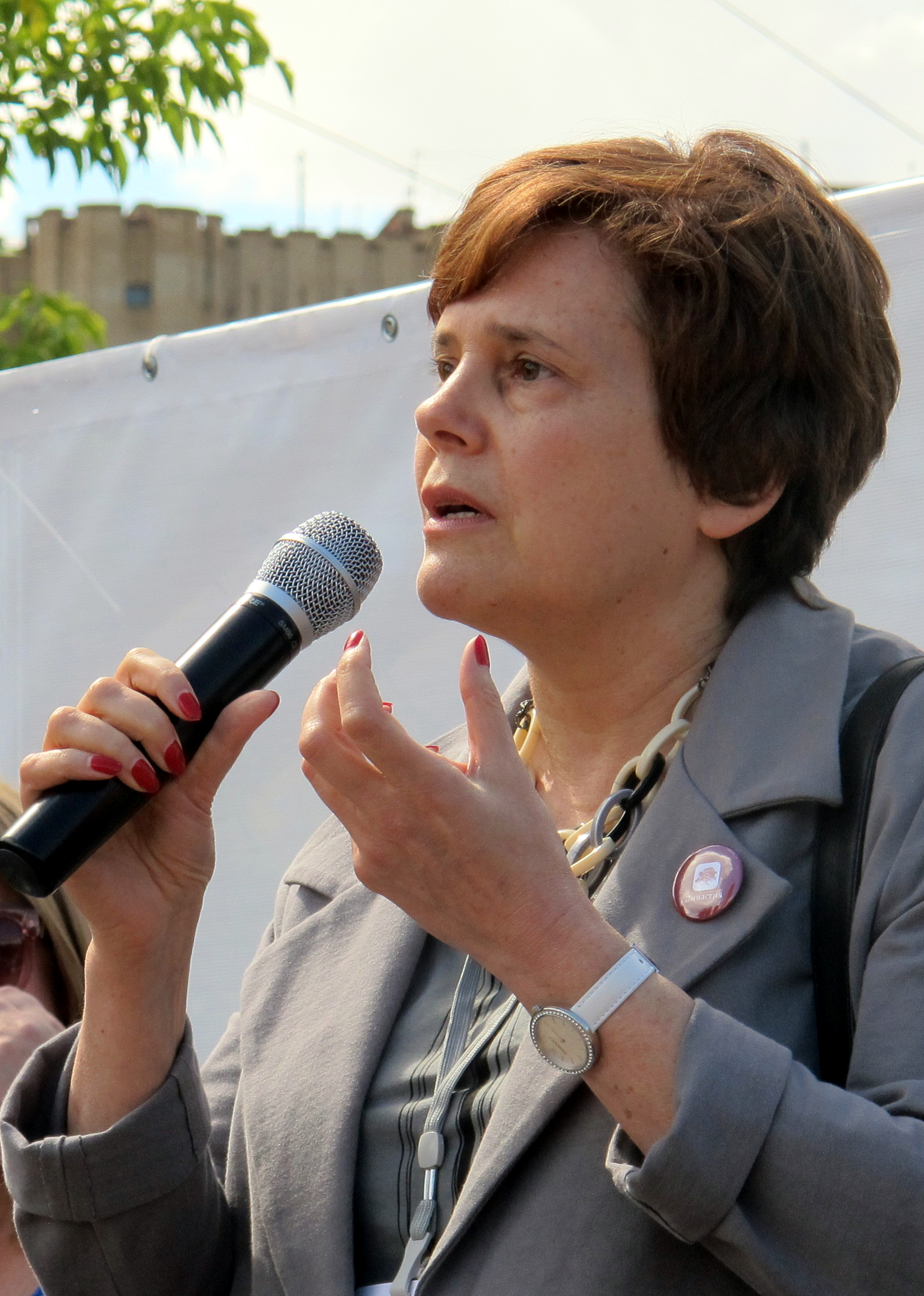 Rally for science and education (Moscow; 2015-06-06)